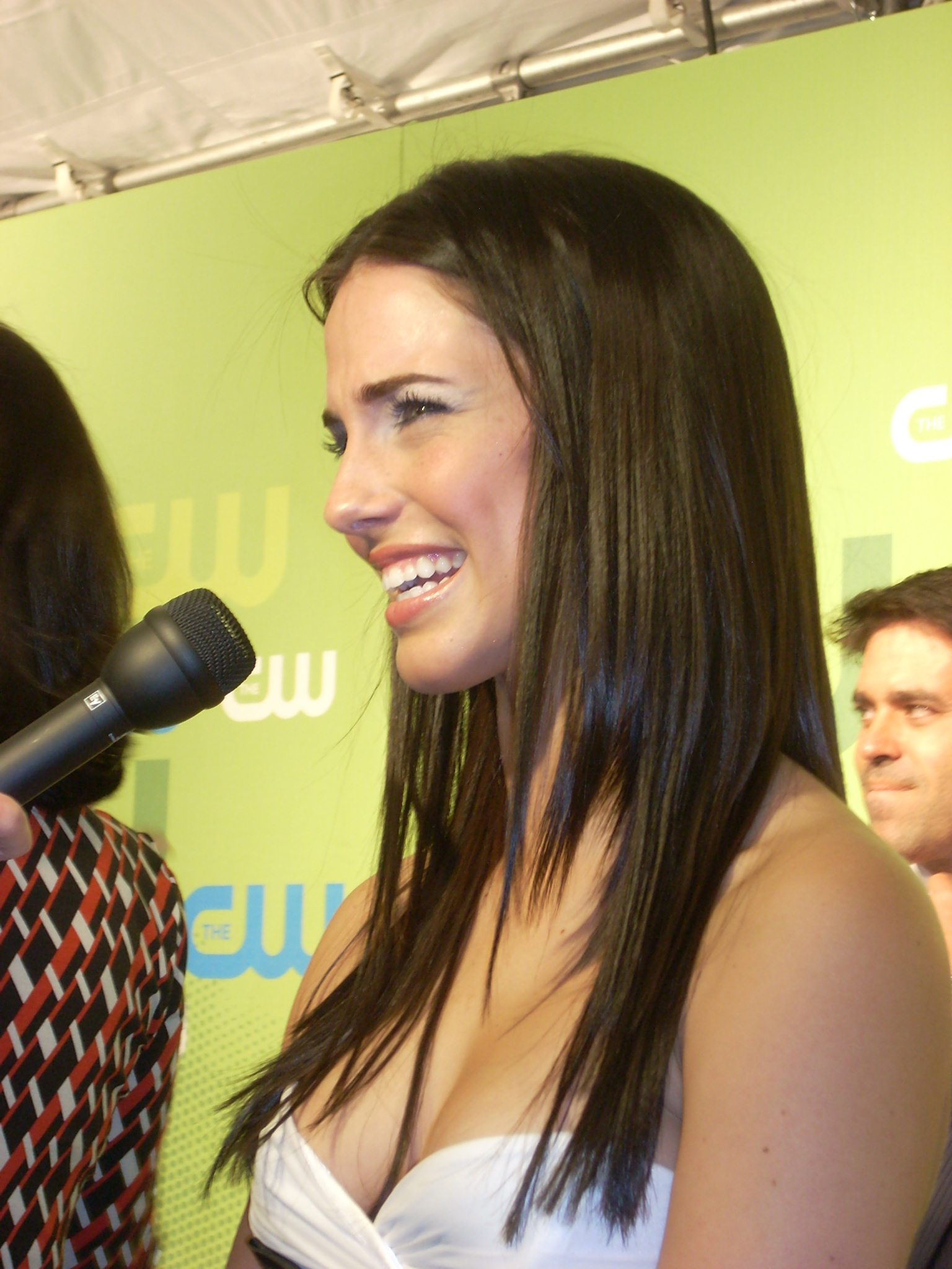 Jessica Lowndes at the CW Upfront Presentation: Green Carpet Arrivals, Madison Square Garden, New York City - May 21, 2009